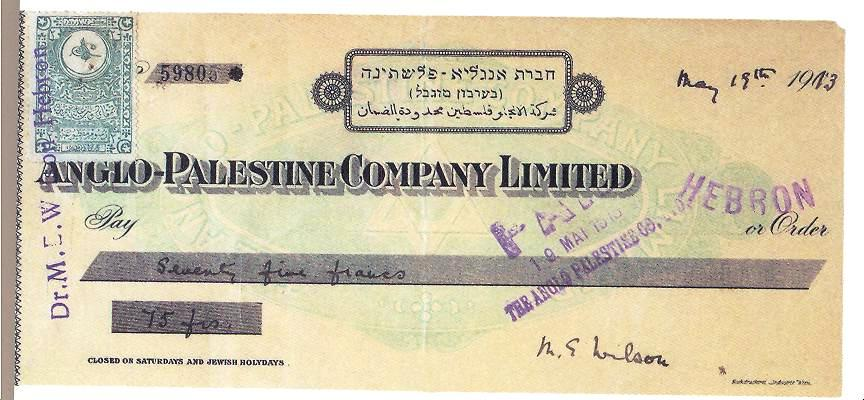 A 1913 cheque from the Anglo-Palestine Company with a 1909 issue 20 paras fixed fee revenue stamp. Catalogue: Sul. 625